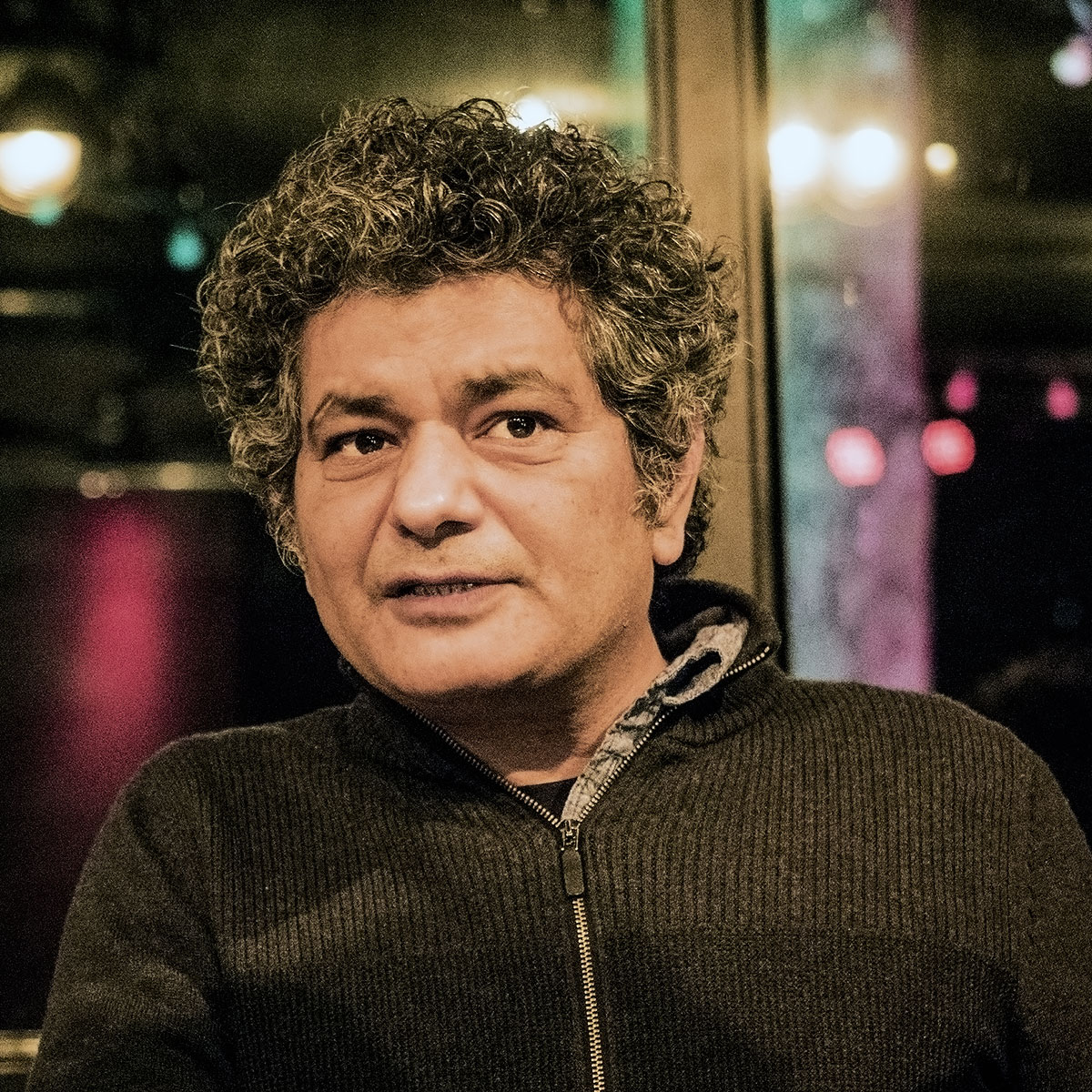 Pakistan author Mohammed Hanif at Cologne, Stadtgarten